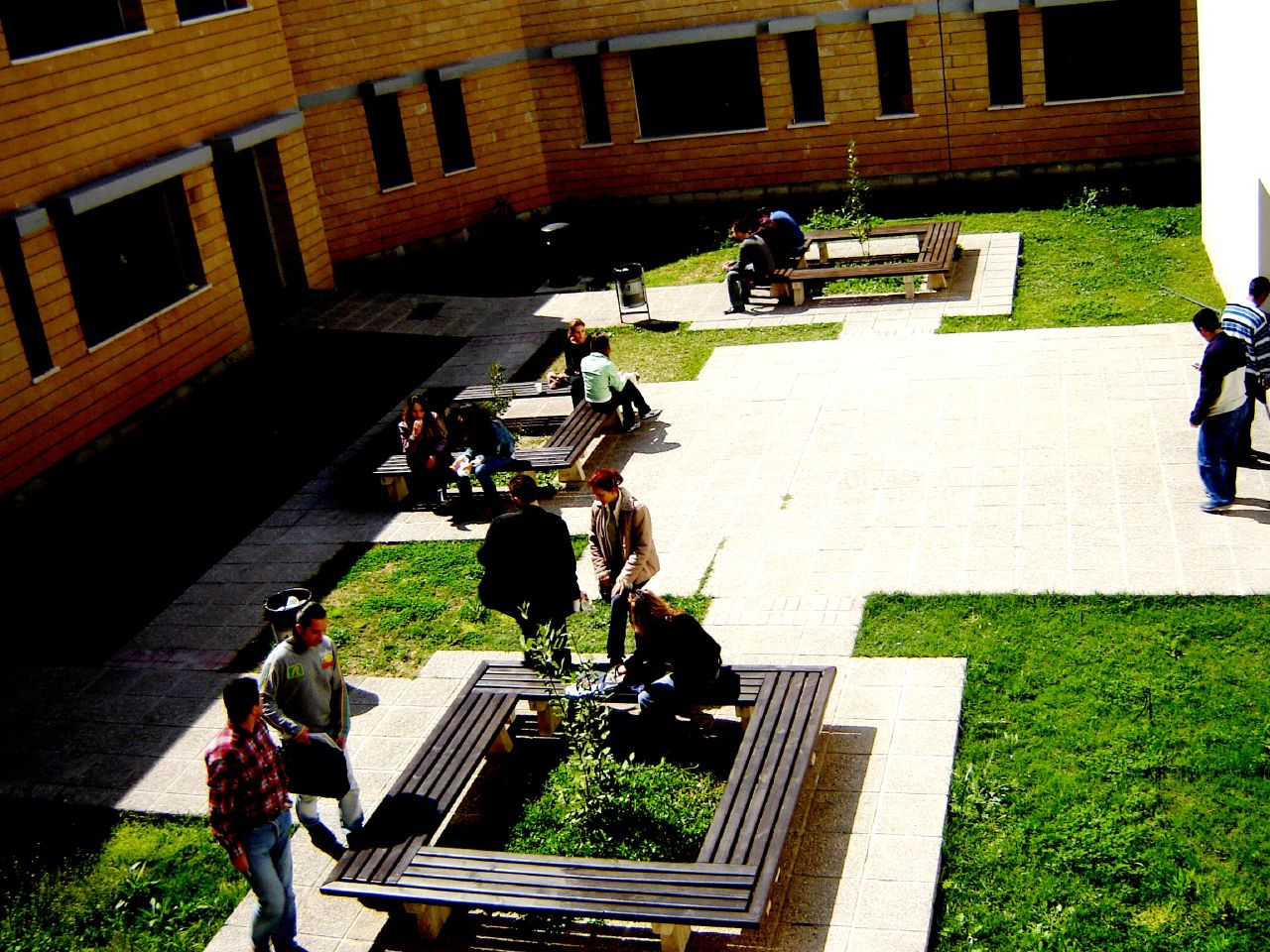 A view from the campus of the Cyprus International University (CIU) / Uluslararası Kıbrıs Üniversitesi (UKÜ)